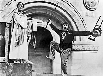 Scene from the film Праздник святого Йоргена (St. Jorgen's Day, 1930).